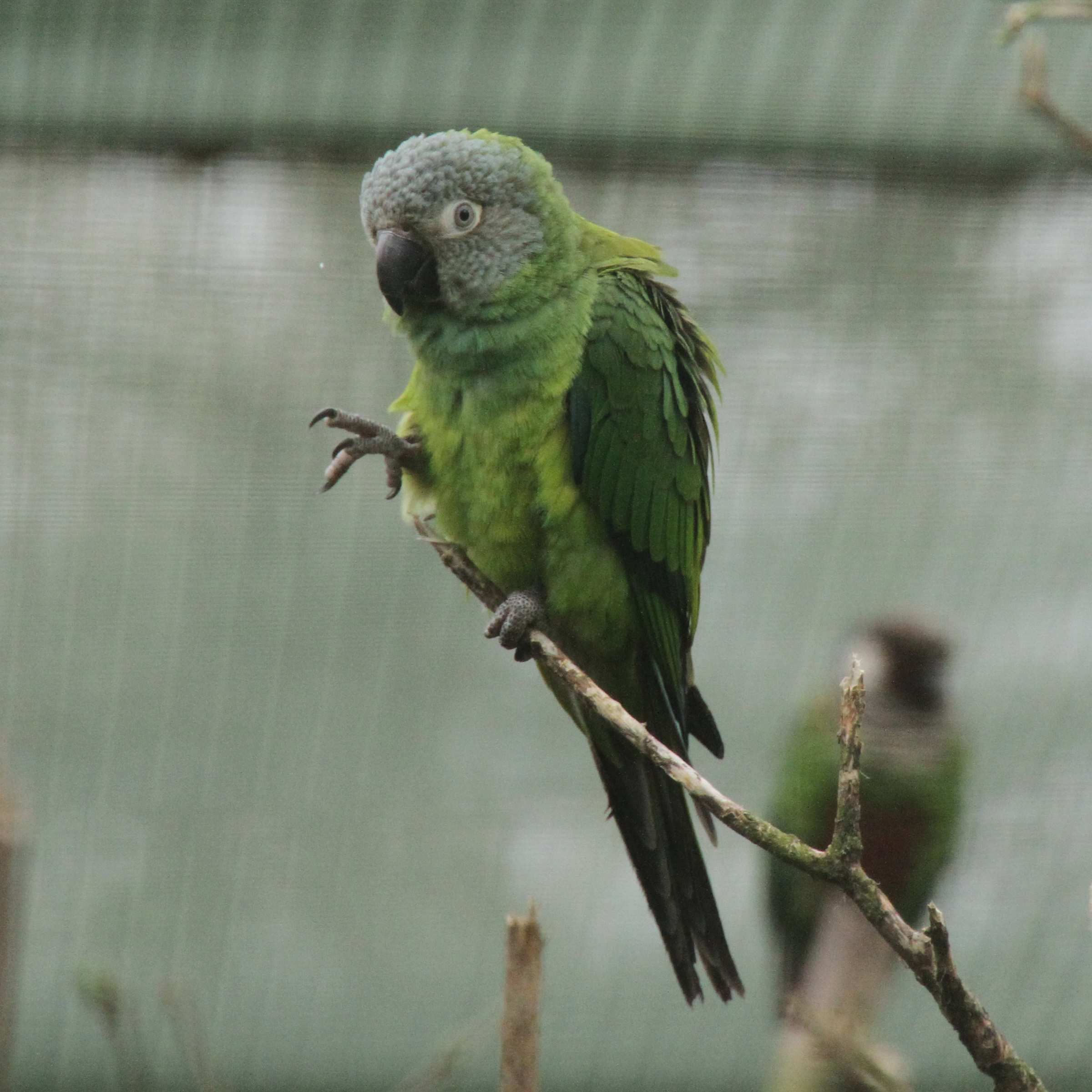 A Dusky-headed Parakeet at Beale Park, Reading, Berkshire, England.